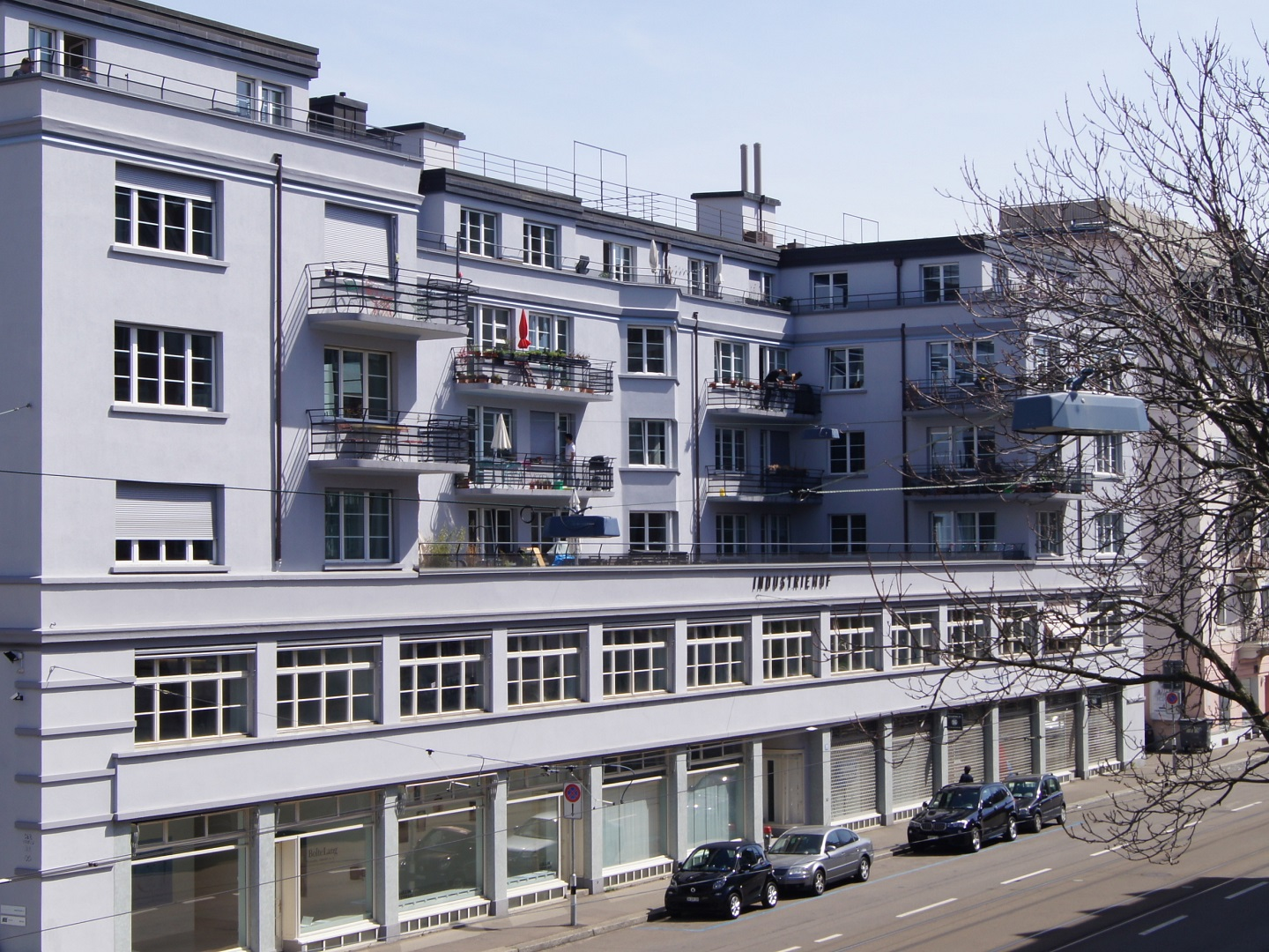 Industriehof, Limmatstrasse, Zürich